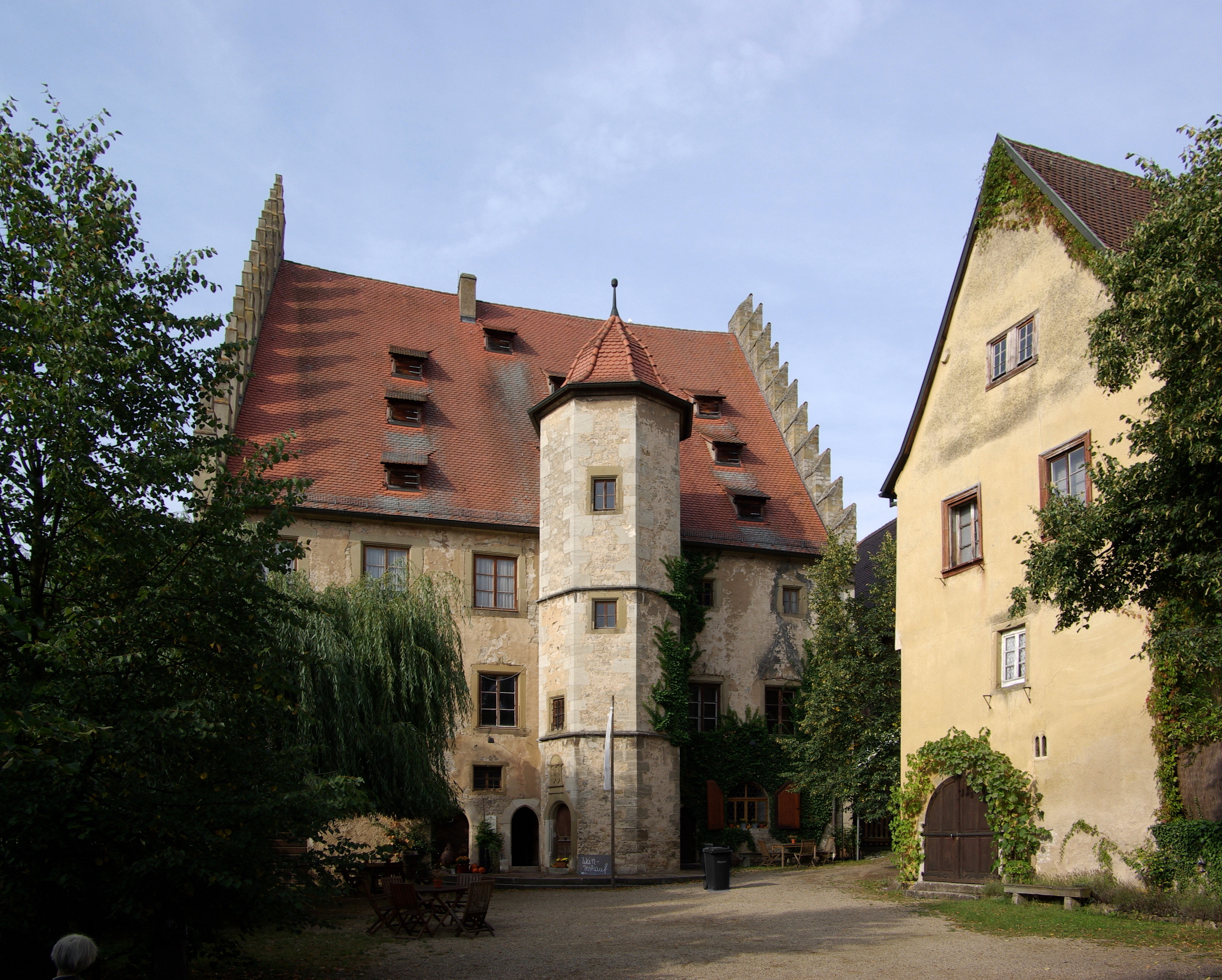 Germany, Sommerhausen, castle